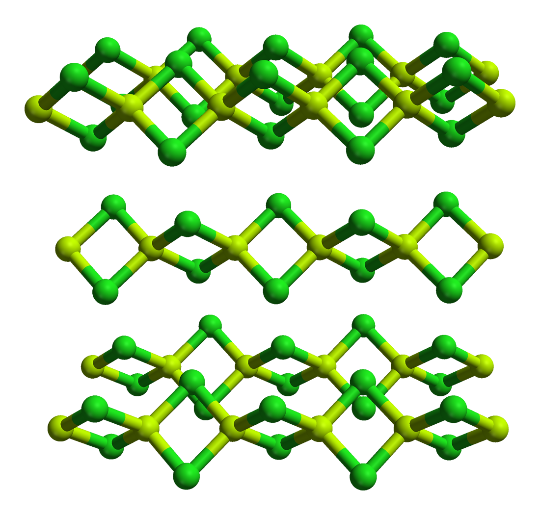 Ball-and-stick model of part of the crystal structure of beryllium chloride, BeCl2. X-ray crystallographic data from R. E. Rundle and Paul H. Lewis (January 1952). "Electron Deficient Compounds. VI. The Structure of Beryllium Chloride". J. Chem. Phys. 20 (1): 132-134.